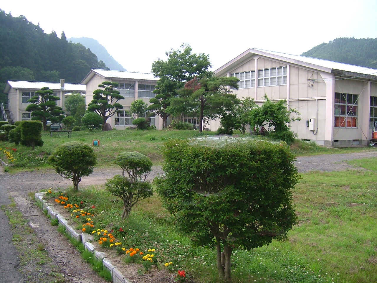 This is the junior high school in Yoshino, Nanyo City, Yamagata Prefecture, Japan. I took it with a digital camera in July 2005.